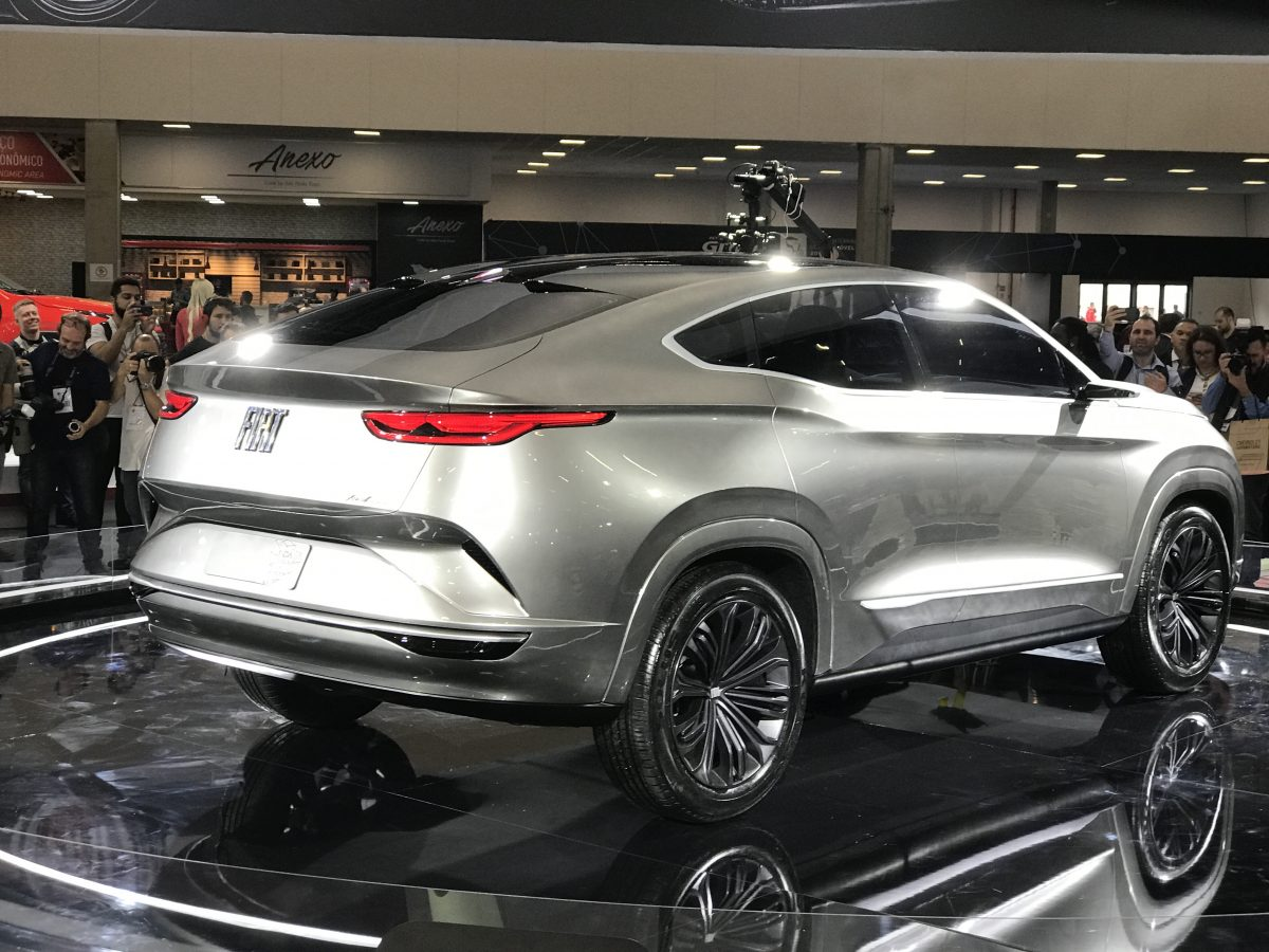 Fiat Fastback concept car at San Paolo Motor Show 2018